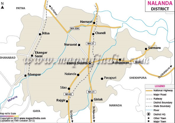 nalanda biharsharif